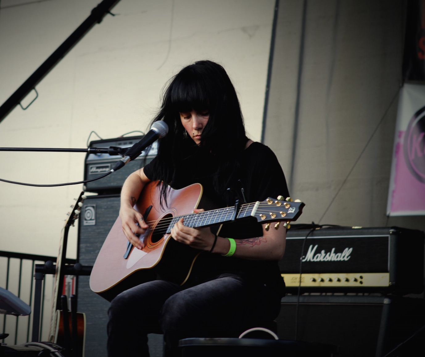 Edith Crash Live